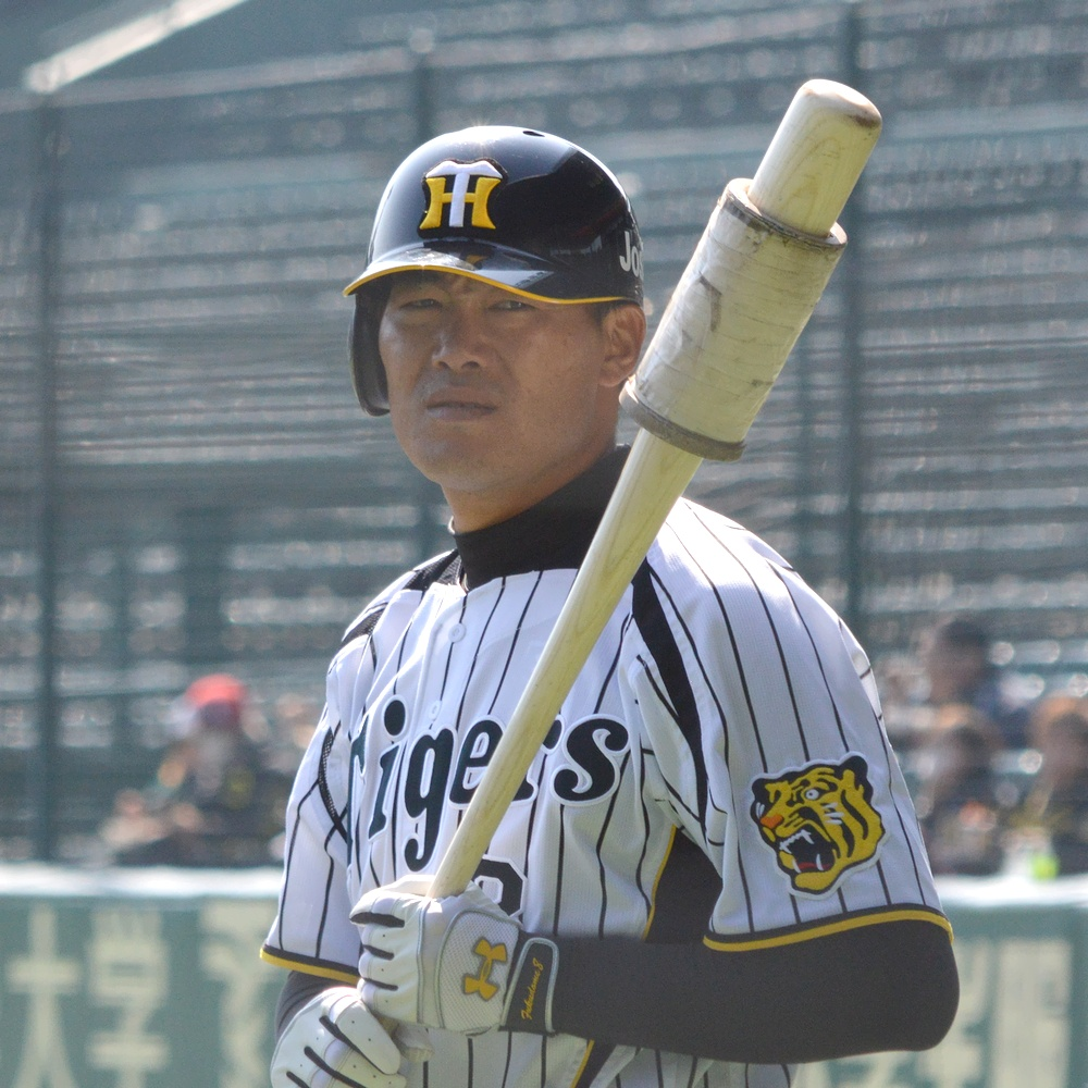 Kosuke Fukudome, outfielder of the Hanshin Tigers, at Hanshin Koshien Stadium.